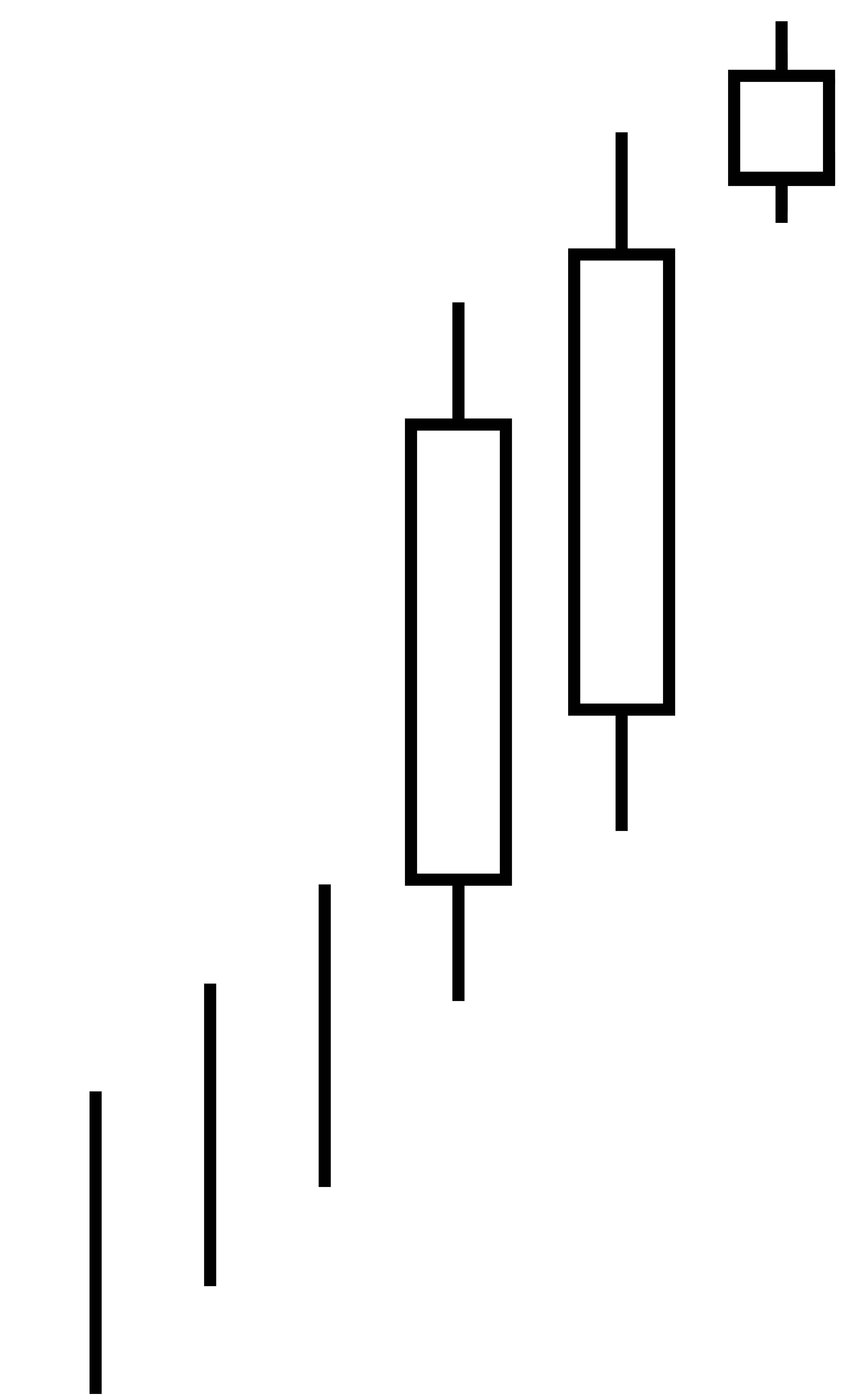 Bearish deliberation